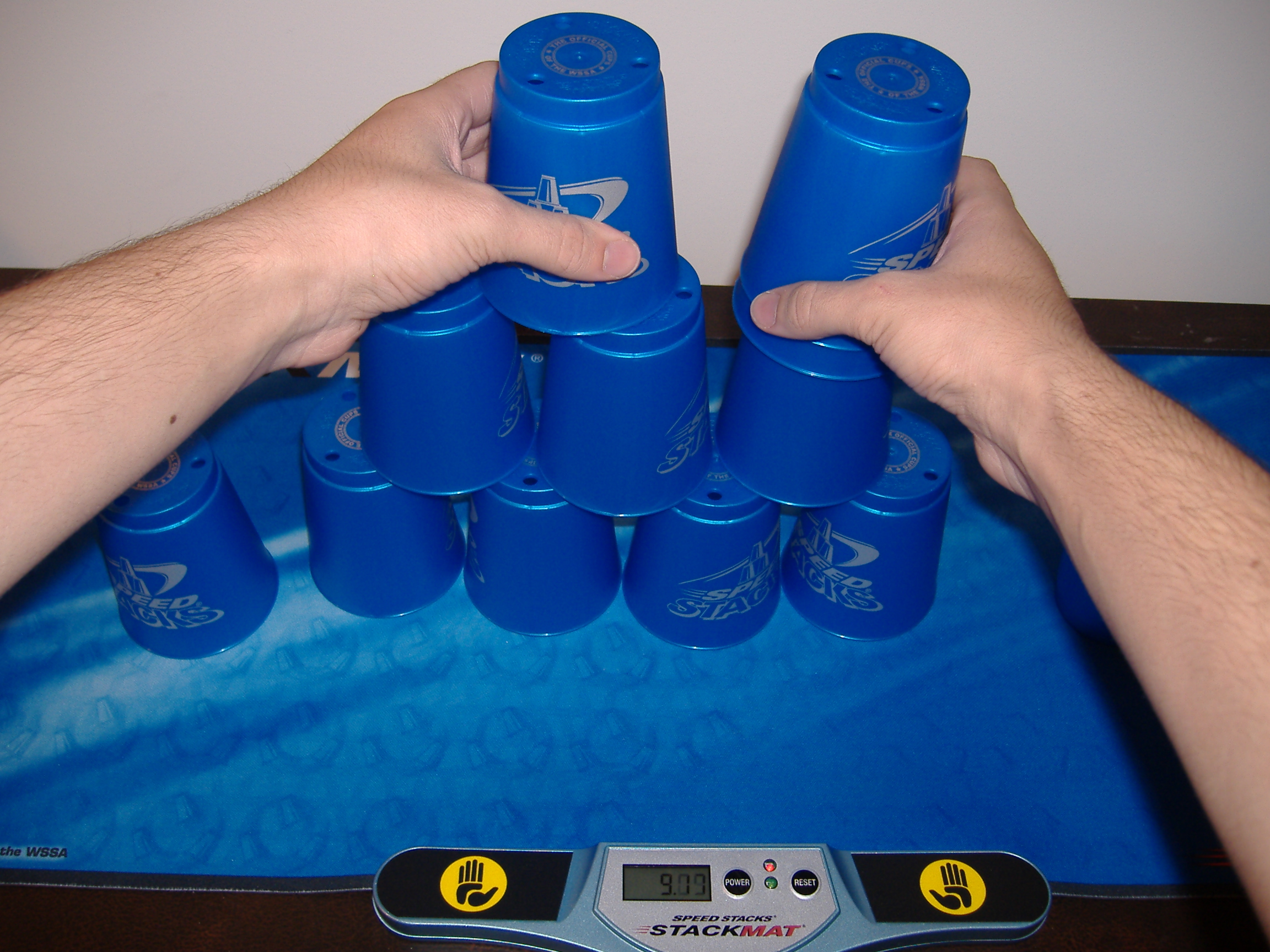 Taken by Jorick Horn. Speed Stacks cups and Stackmat are products and trademarks of Speed Stacks inc.